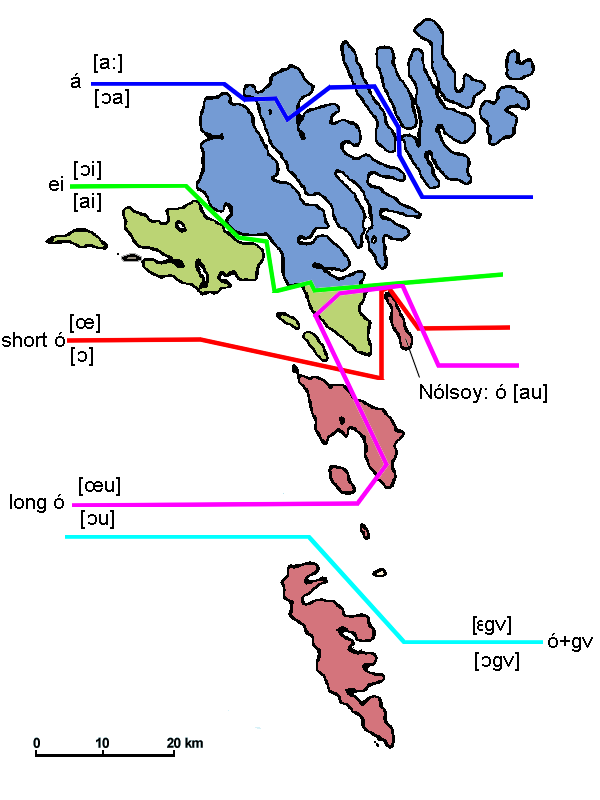 Main dialects of the Faroese language